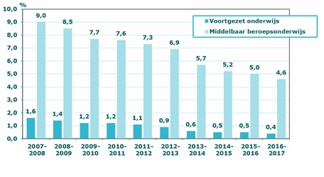 statics